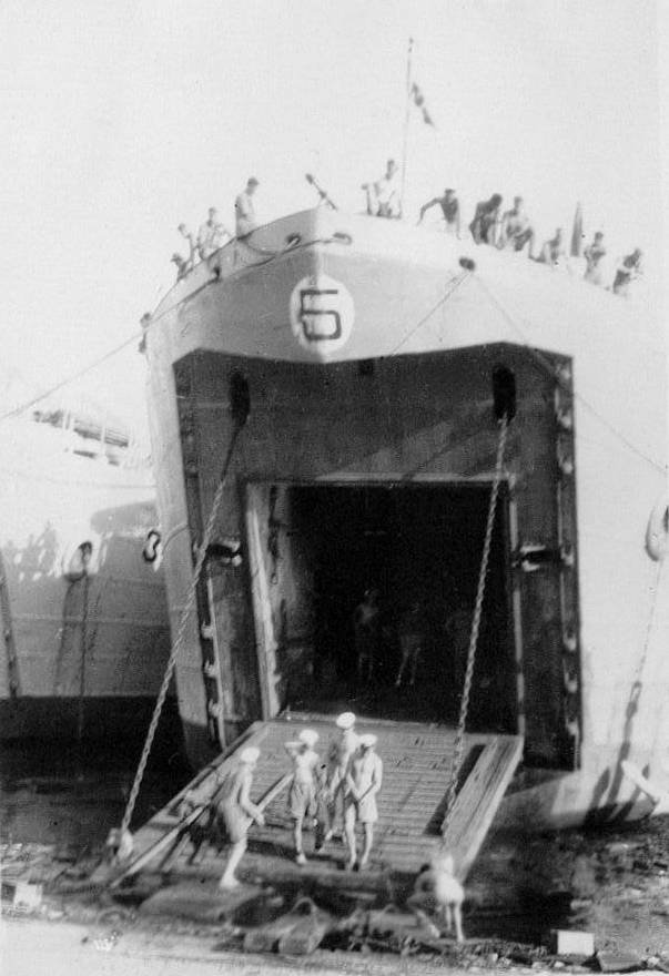 HM LST-5 beached at Madras, India while loading in preparation for the voyage to Bataria, Java, Dutch East Indies, 2 January 1946.